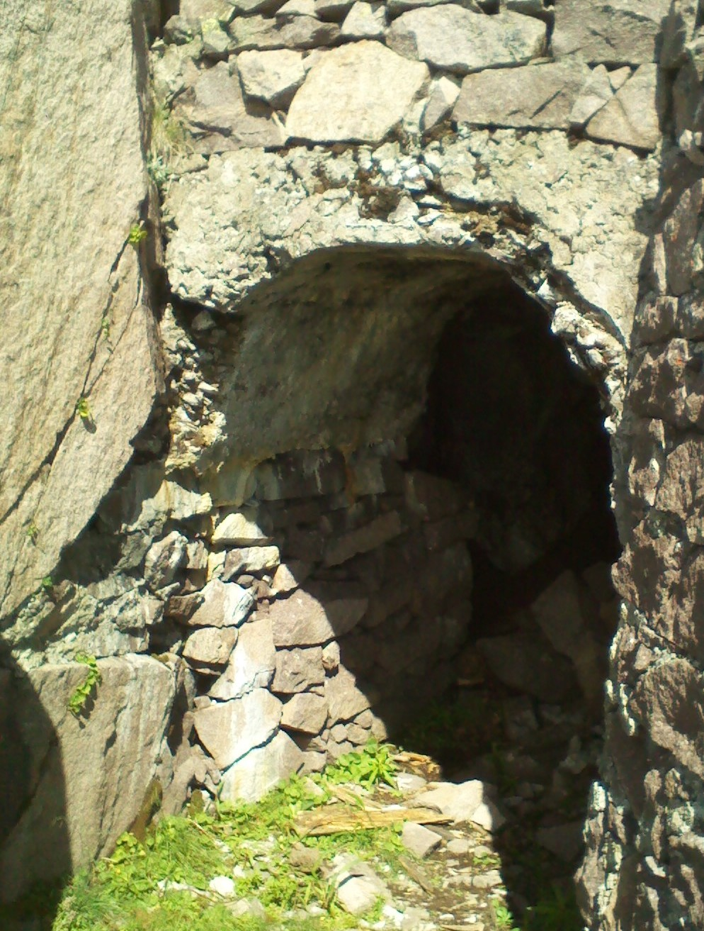 A military cave on Cauriol